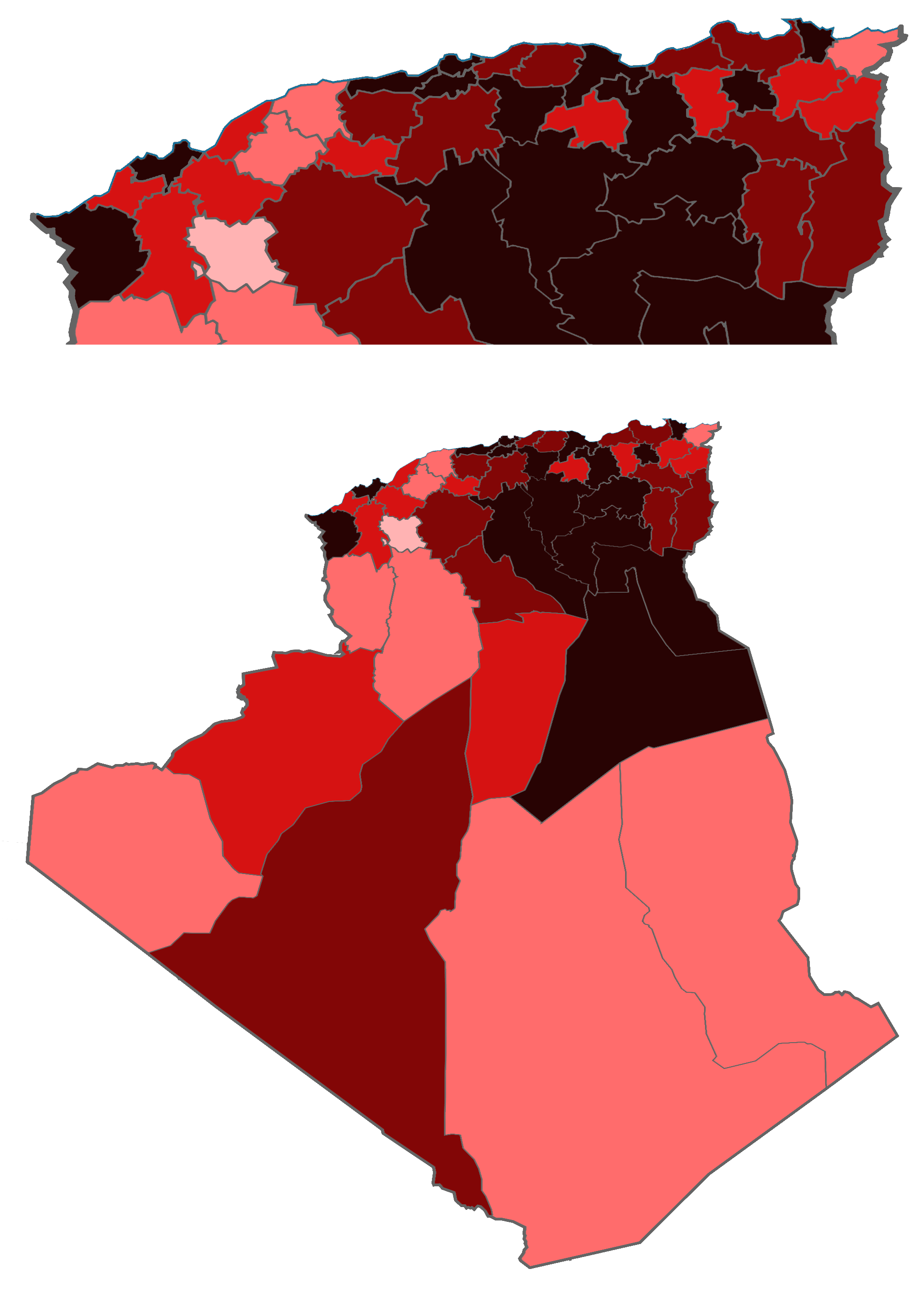 1-99 Confirmed cases 100-299 Confirmed cases 300-499 Confirmed cases 500-999 Confirmed cases 1000+ Confirmed cases